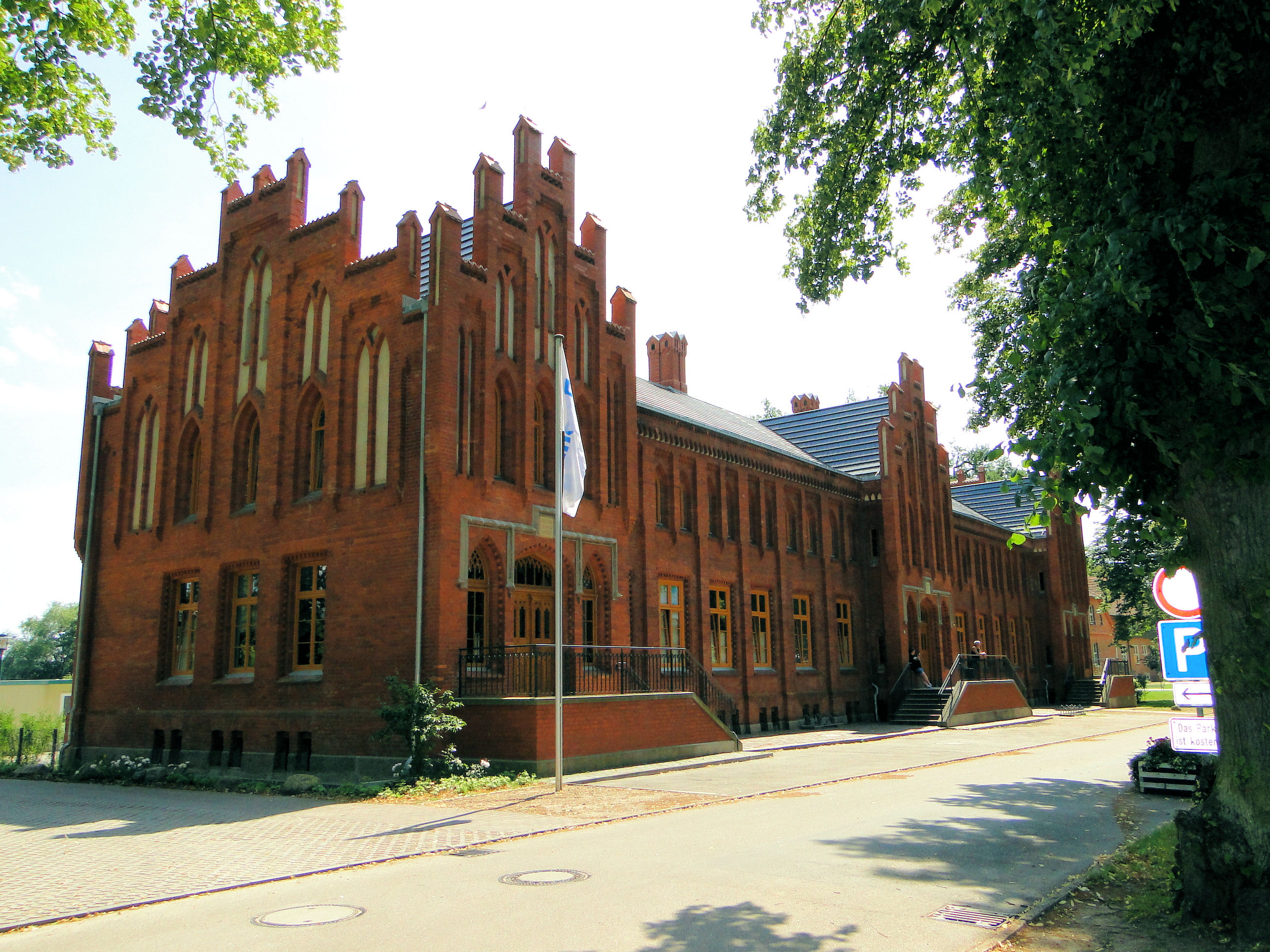 Women's building in Dobbertin, district Parchim, Mecklenburg-Vorpommern, Germany